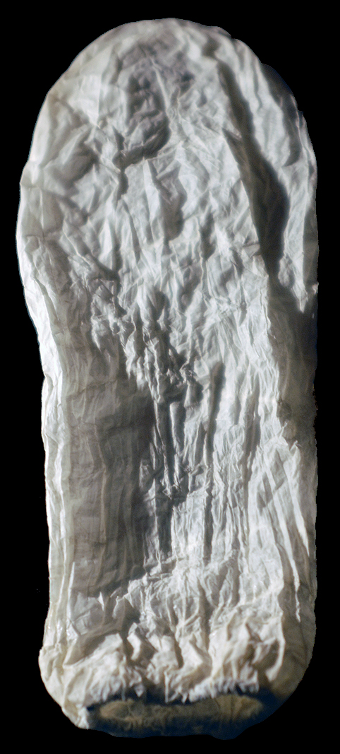 One of the first condoms made from animal intestiens.